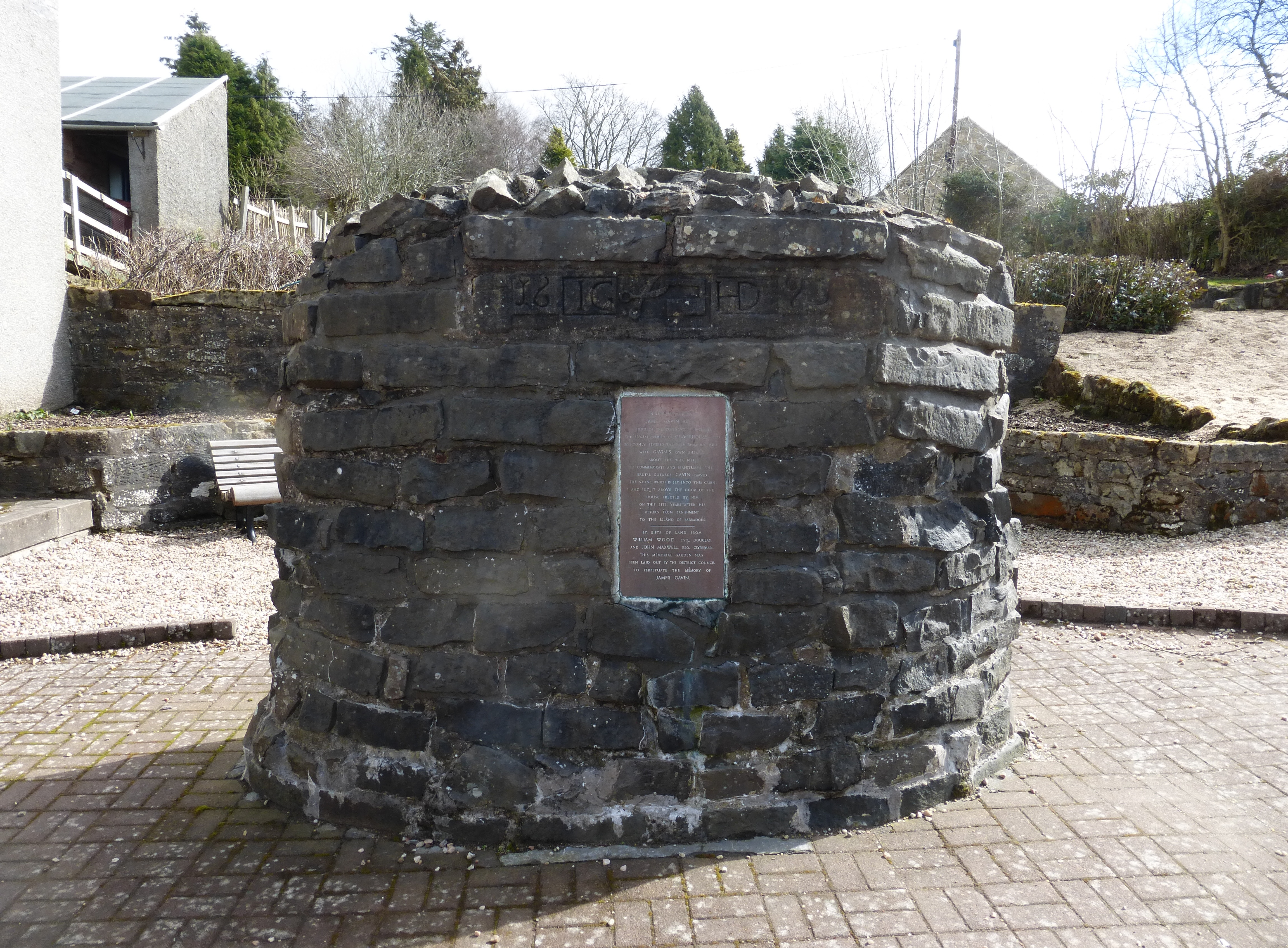 James Gavin Monument, Douglas, Lanarkshire